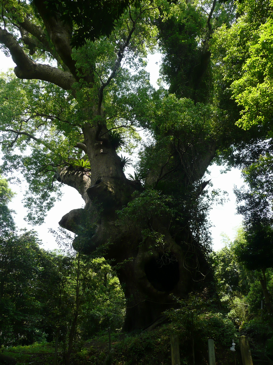 Camphor Tree of Tsukazaki (Kimotsuki Town, Kagoshima, Japan)